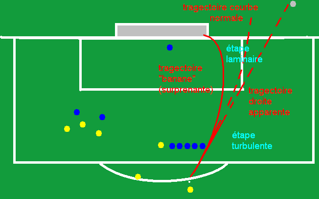 my image. describes trajectory of a "banana"-style kick, loosely based on Roberto Carlos's effort against France in 1997 Other version